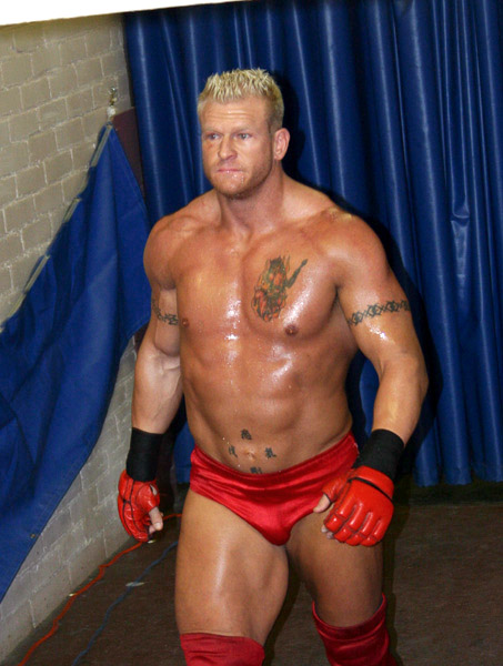 Jon Heidenreich makes his entrance on a WWE house show held in Kitchener, Ontario, Canada on January 15, 2005.